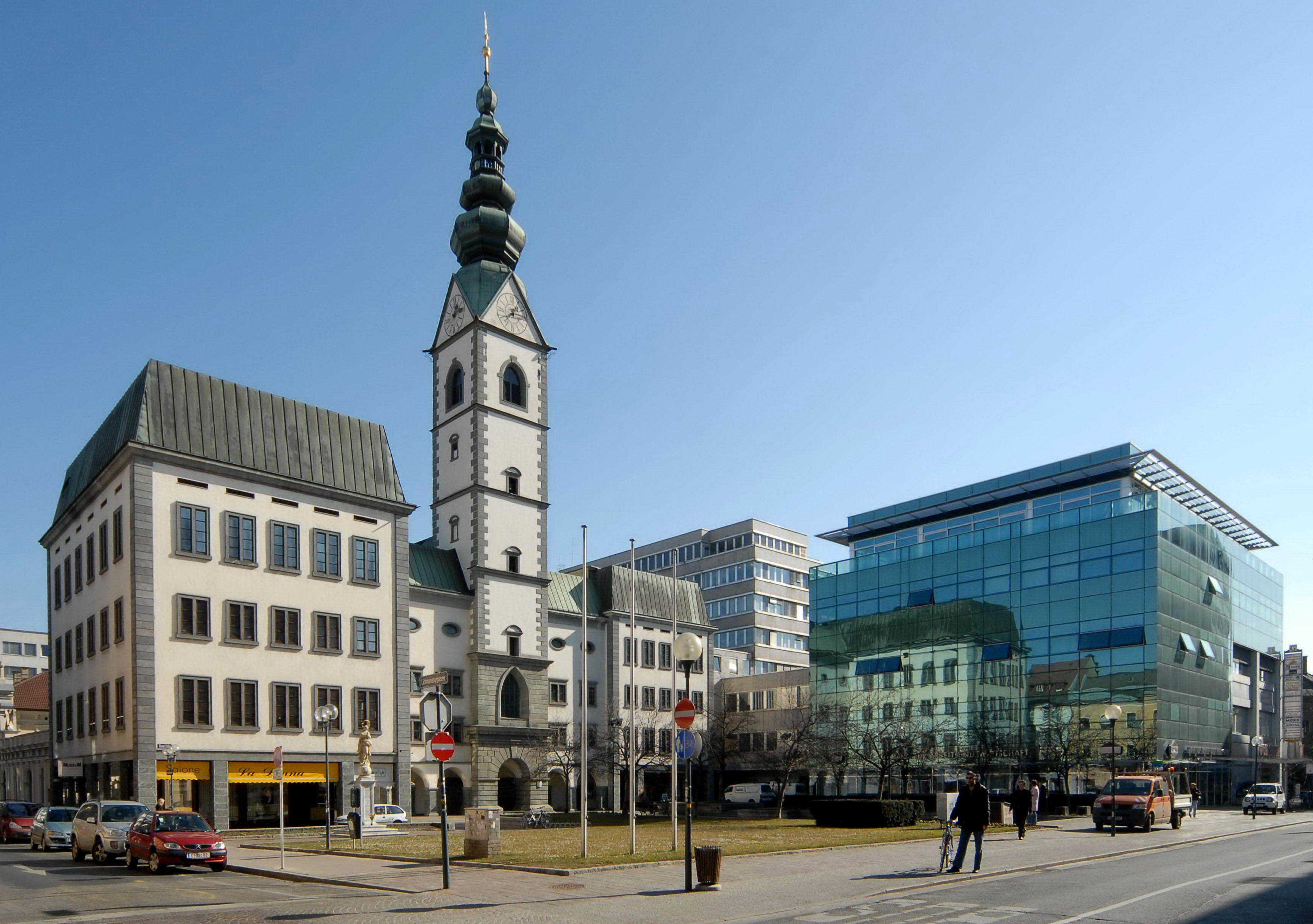 Cathedral square (Domplatz) with Cathedral and city parish church Saints Peter and Paul, inner city of Klagenfurt, Carinthia, Austria, EU